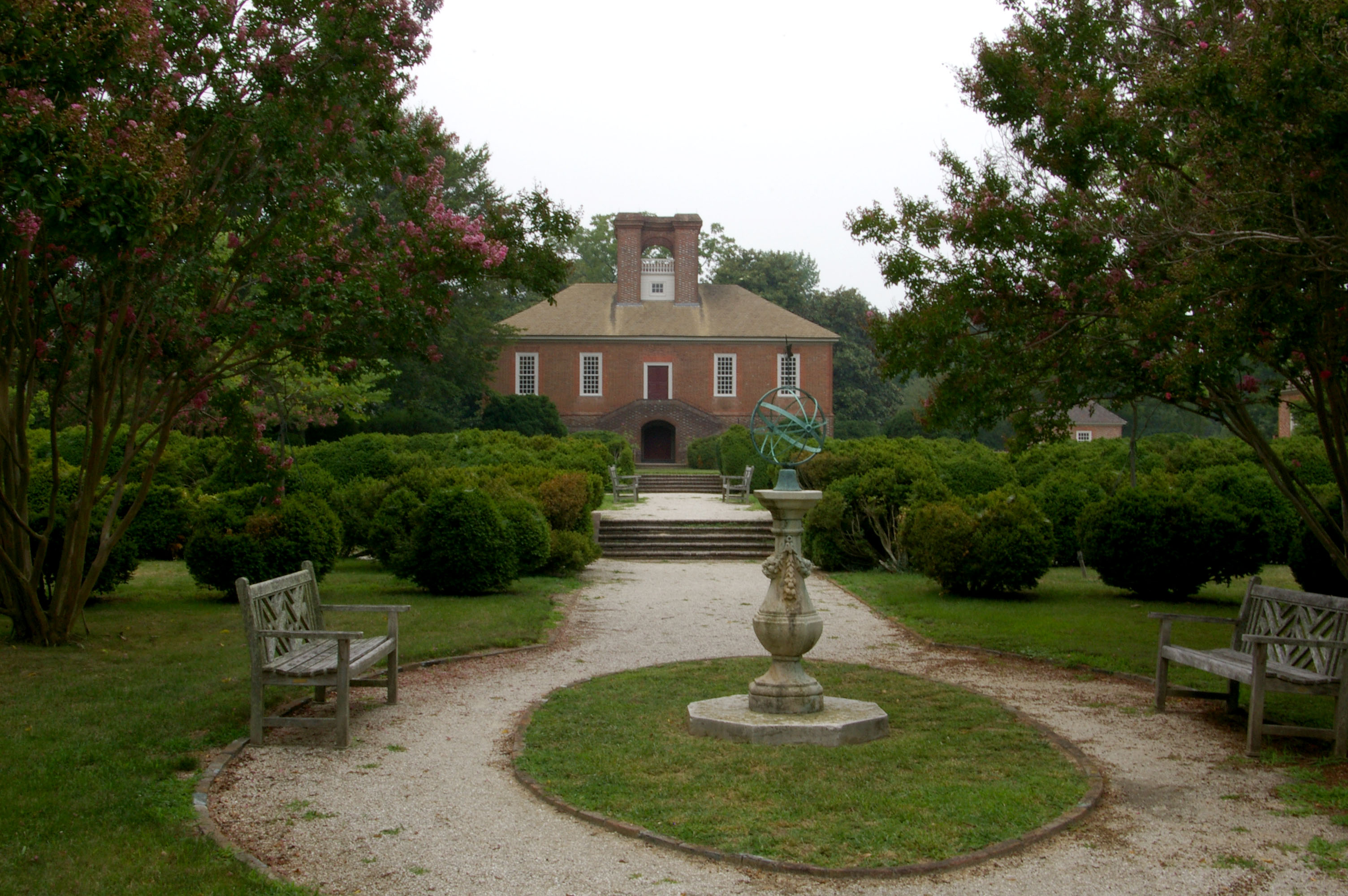 View of Stratford Hall Plantation main house from the East Garden (formal boxwood garden).